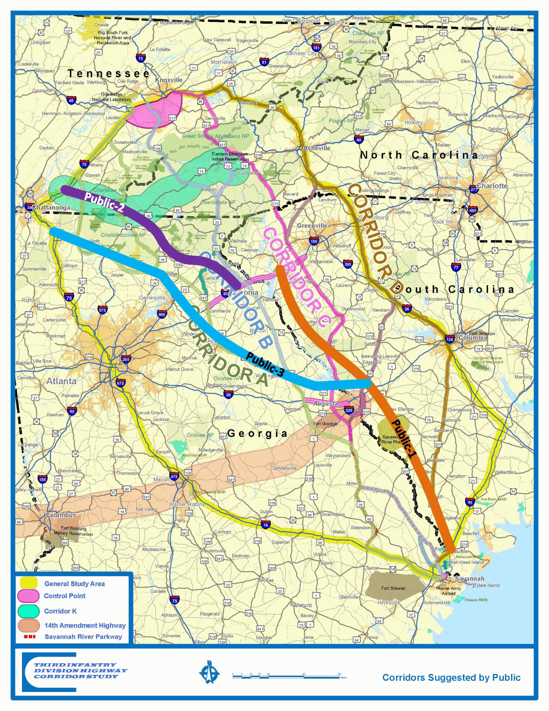 Proposed corridors for future Interstate 3. Corridors A through D were proposed by the 3rd Infantry Division Highway study. Three corridors (Public-1, Public-2, & Public-3) were suggested by members of the public through the study's website.